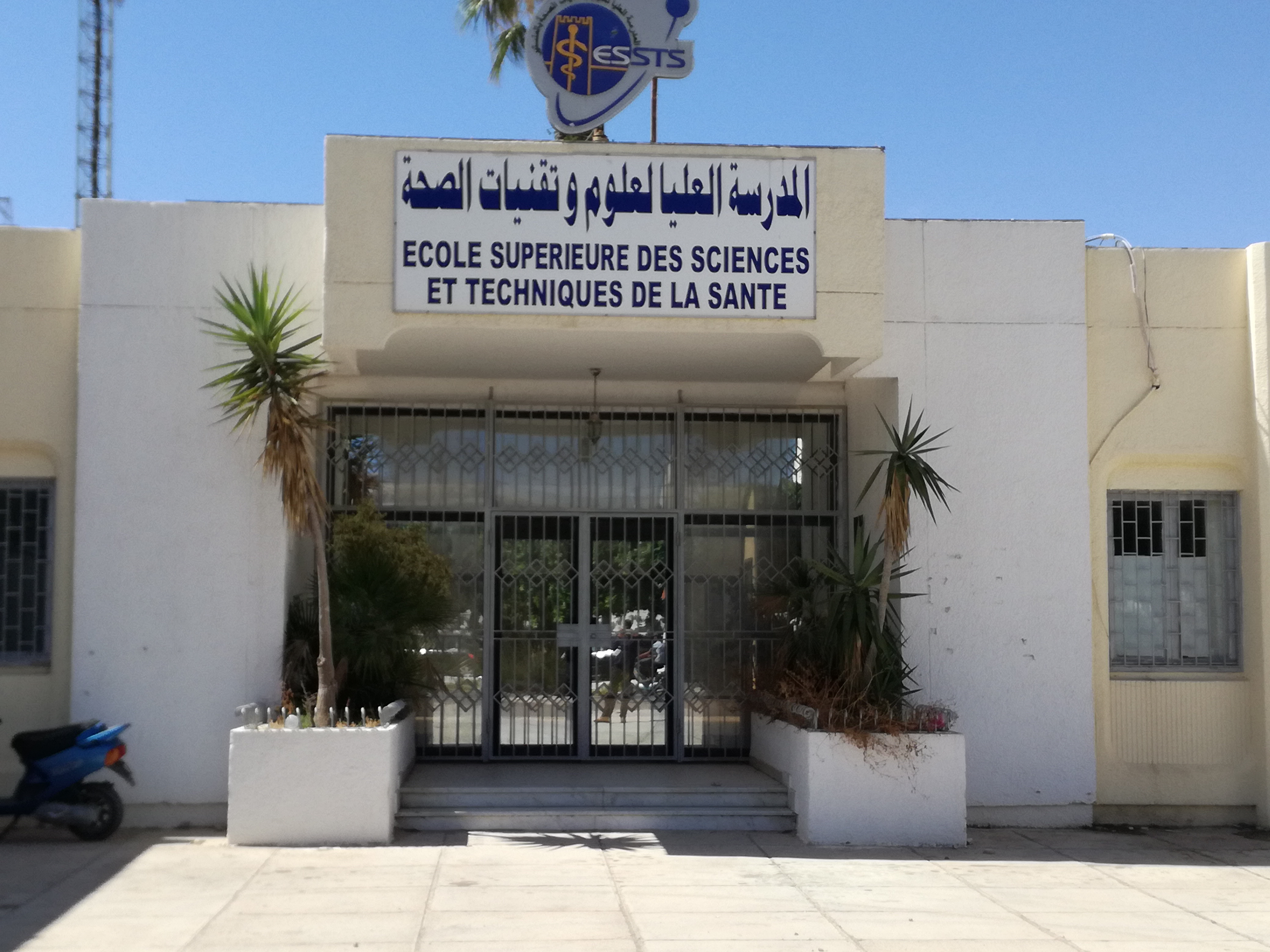 École supérieure des sciences et techniques de la santé de Monastir